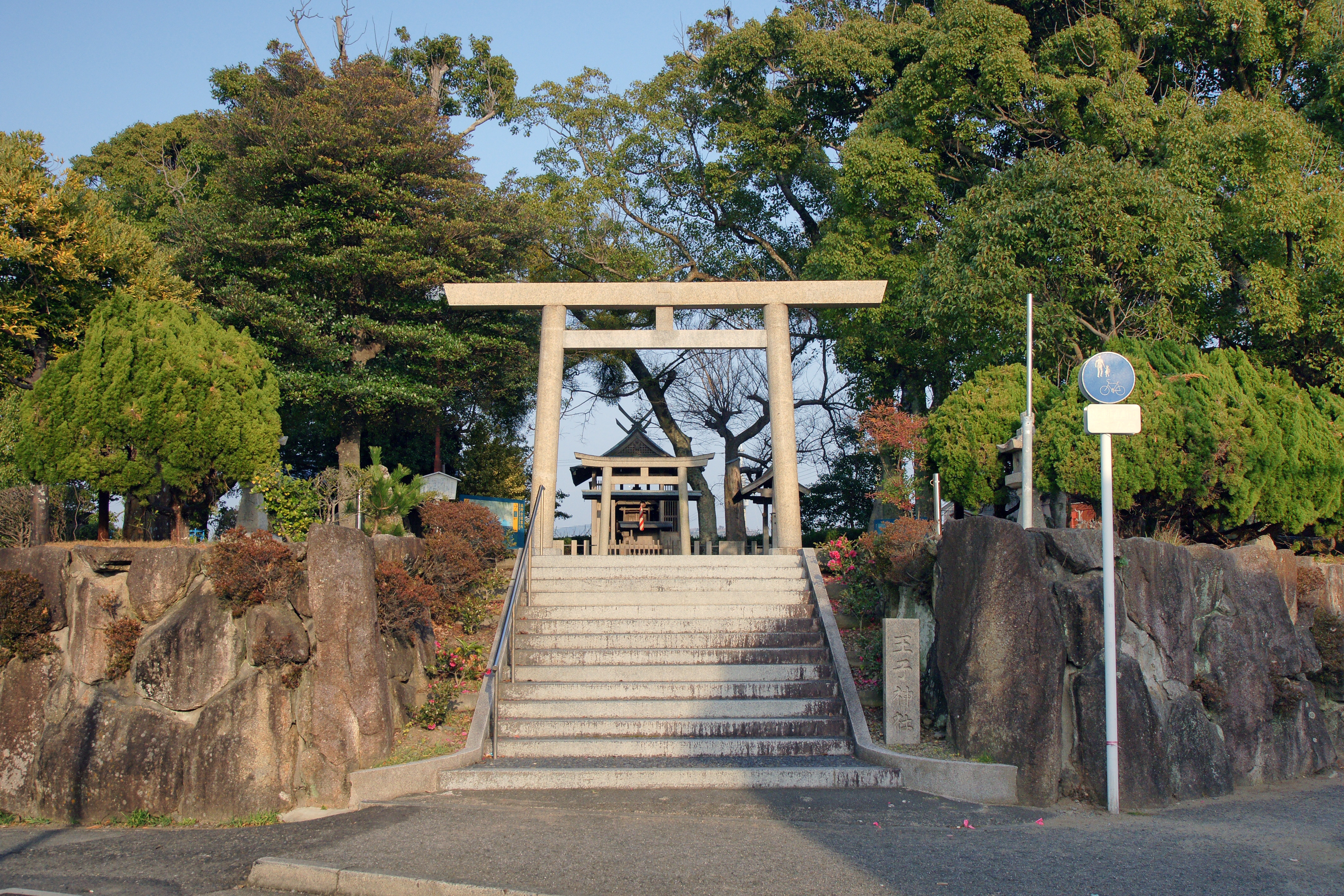 Minabe Oji, Minabe, Wakayama prefecture, Japan